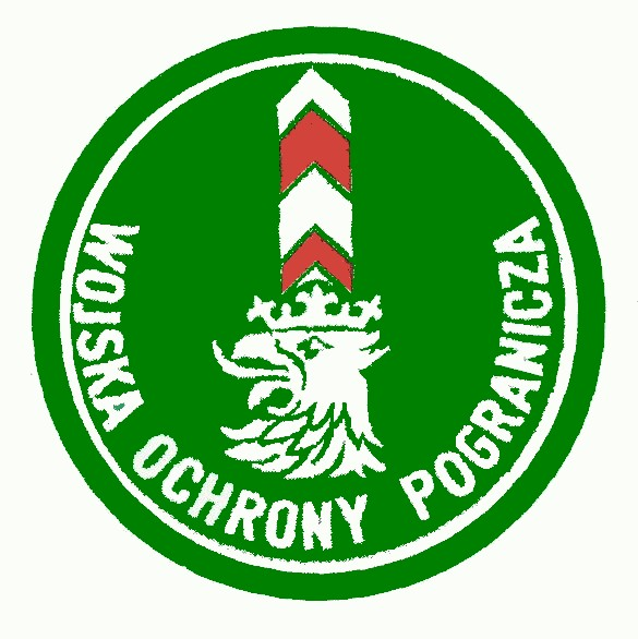 Plakietka Pomorskiej Brygady WOP